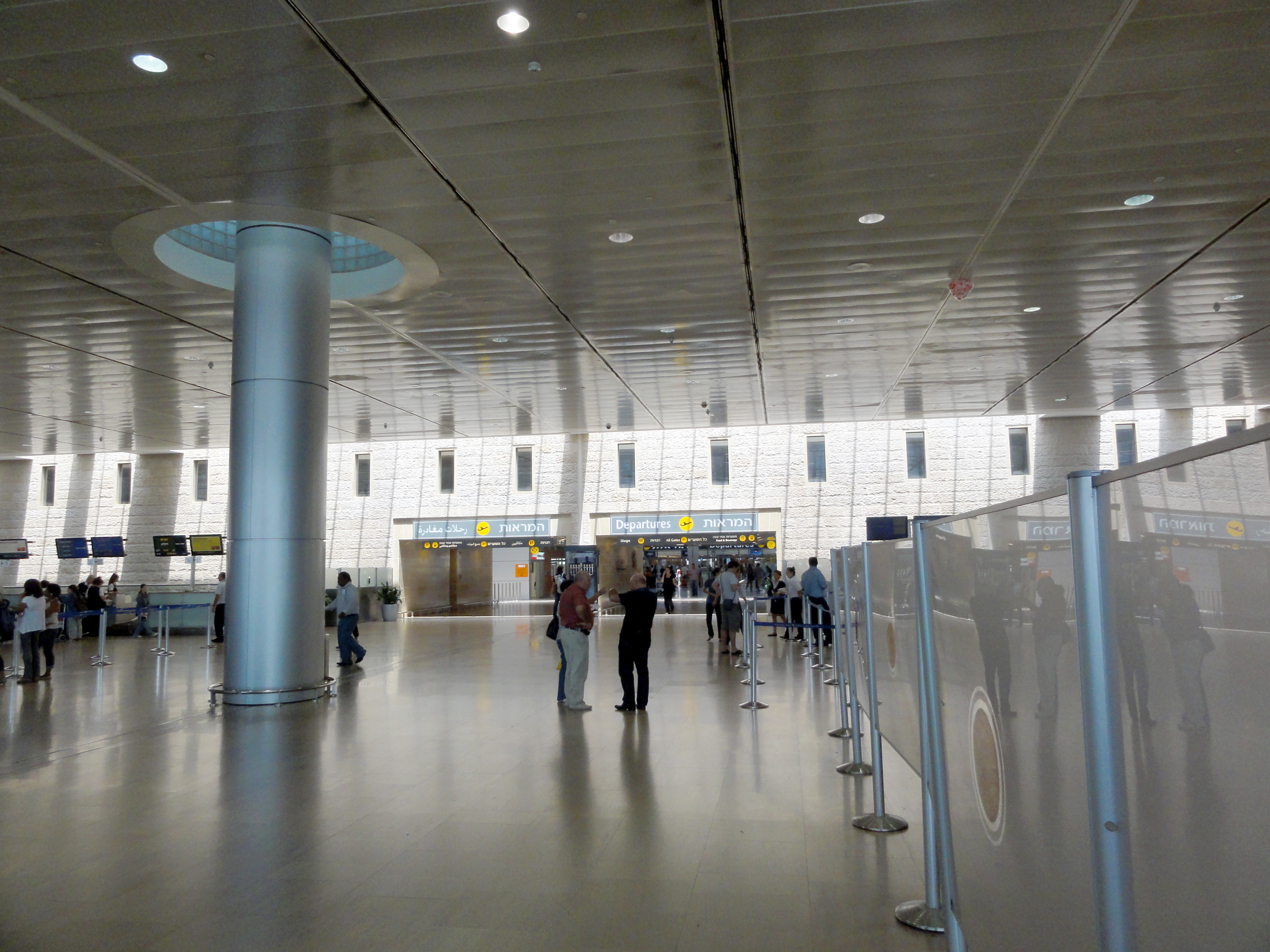 Ben Gurion International Airport terminal 3, Israel. Info GPS data may be inaccurate. EXIF data regarding date and time may be inaccurate.